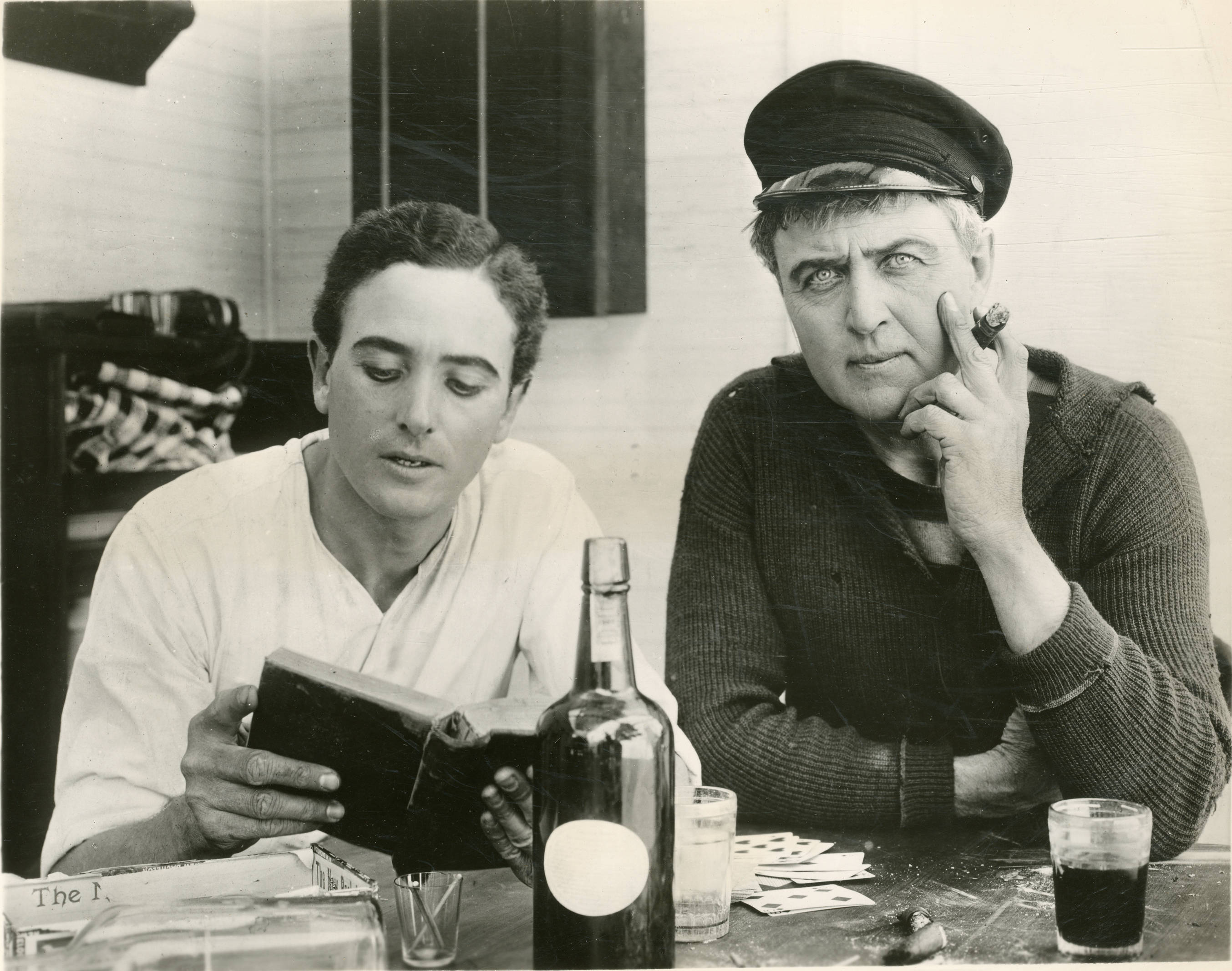 A scene from the American drama film The Sea Wolf (1913). Includes Herbert Rawlinson (left) and Hobart Bosworth. Probably a copy print. Subjects: motion pictures, actors